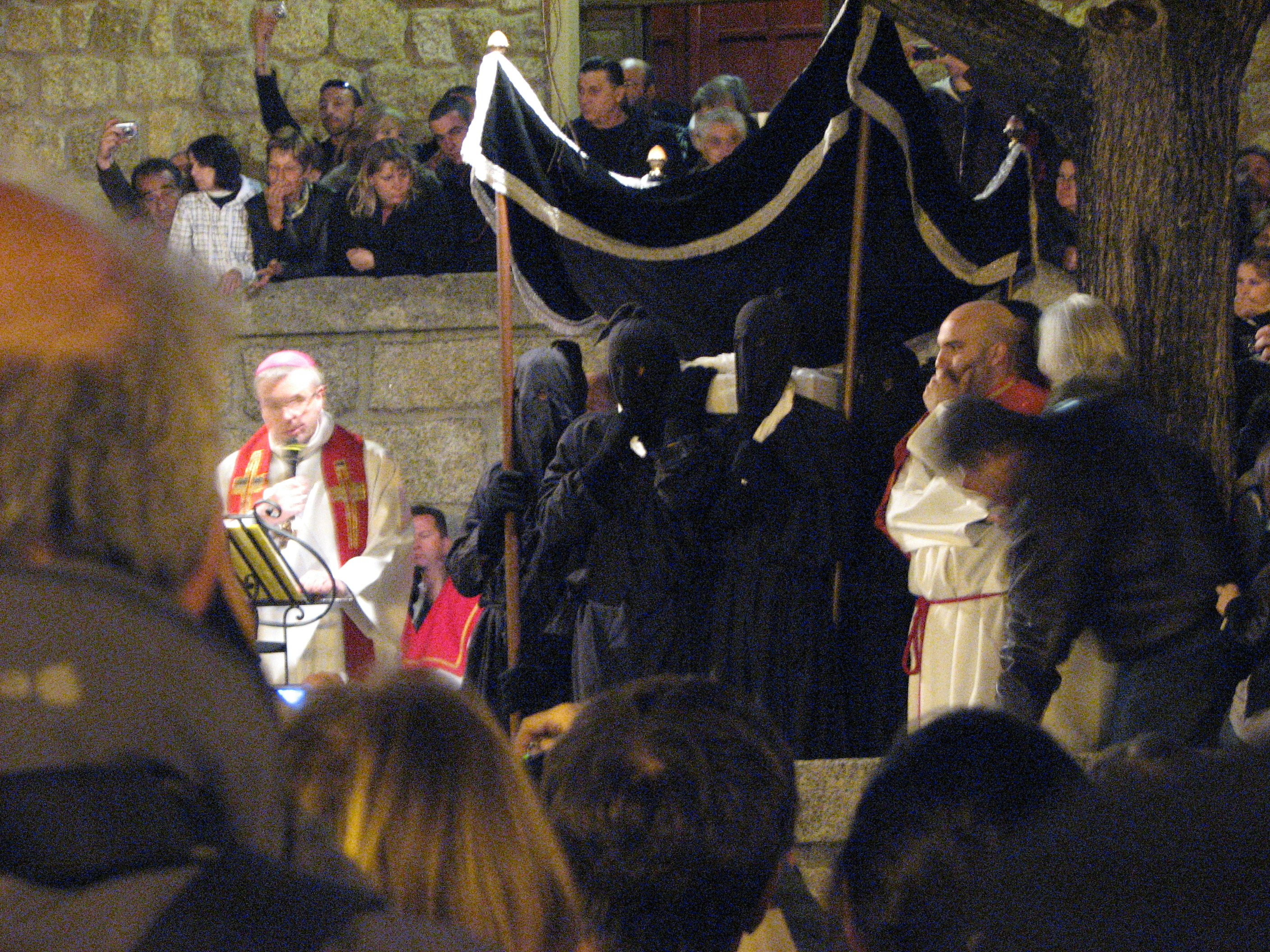 View from Catenacciu in Sartè (Corsica)